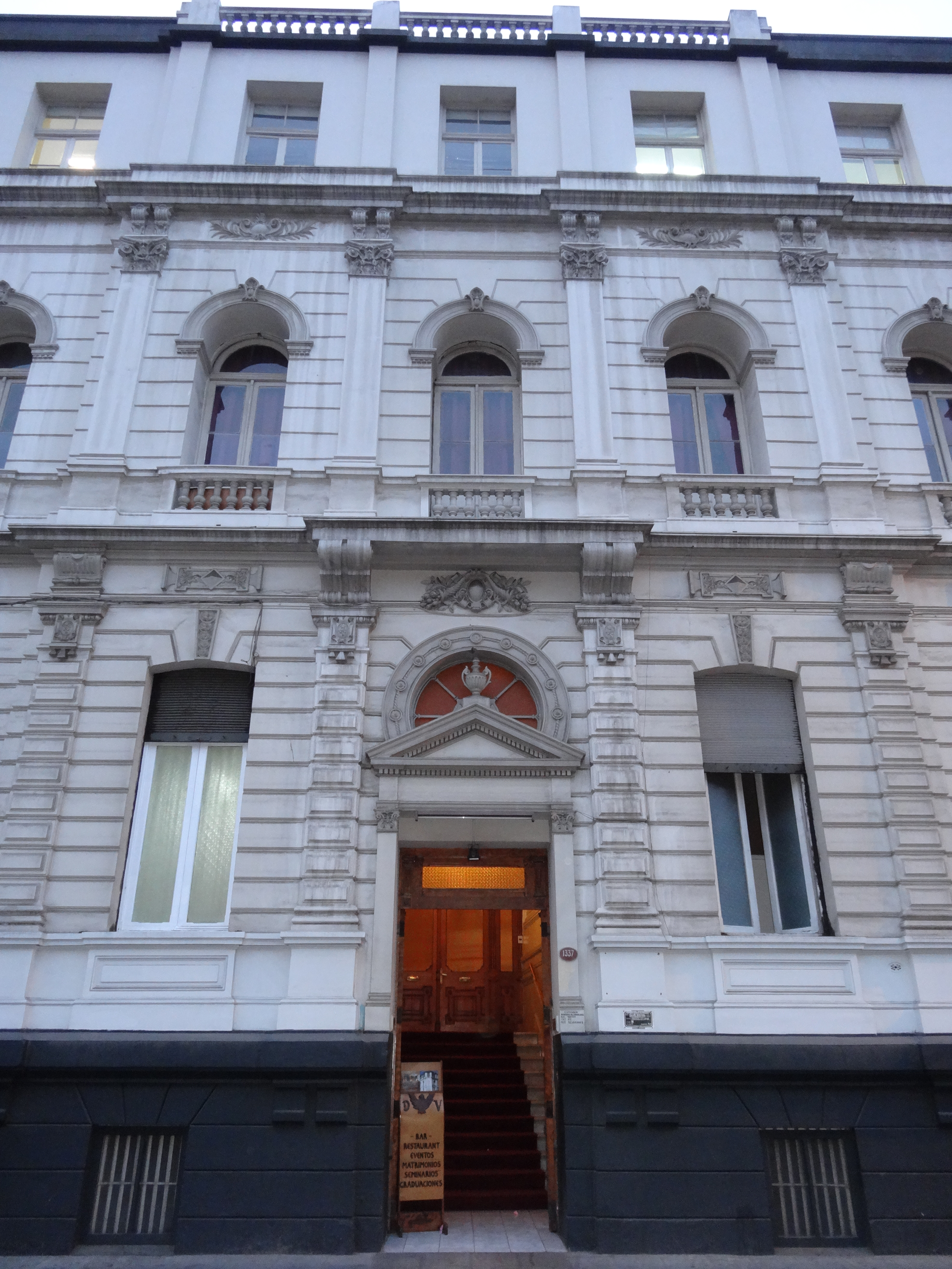 This is a photo of a national monument in Chile: 788